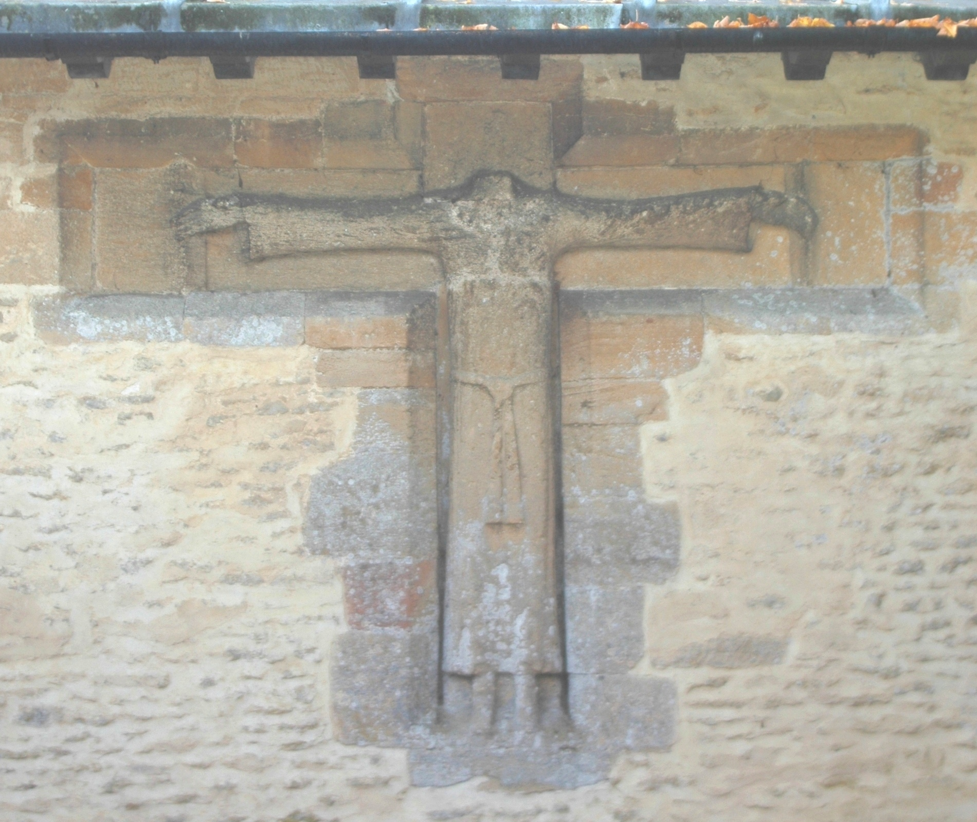 8th century relief stone crucifix on the porch of the Church of England parish church of St. Matthew, Langford, Oxfordshire